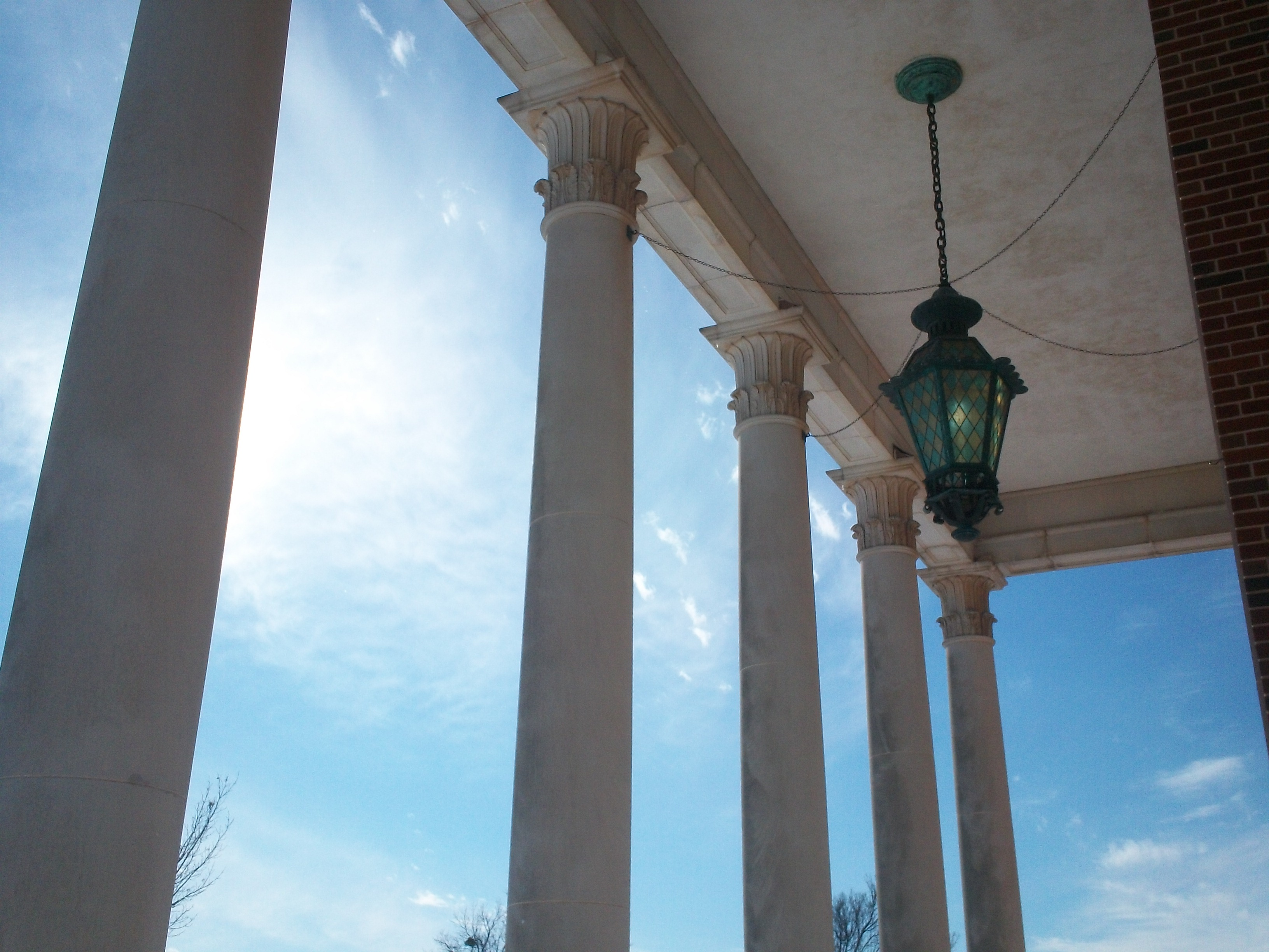 View from Raley Chapel front stoop